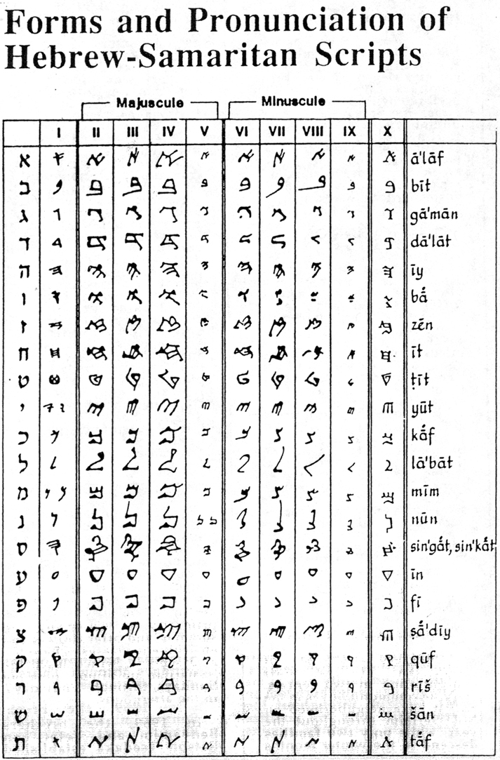 The evolution of the Samaritan script